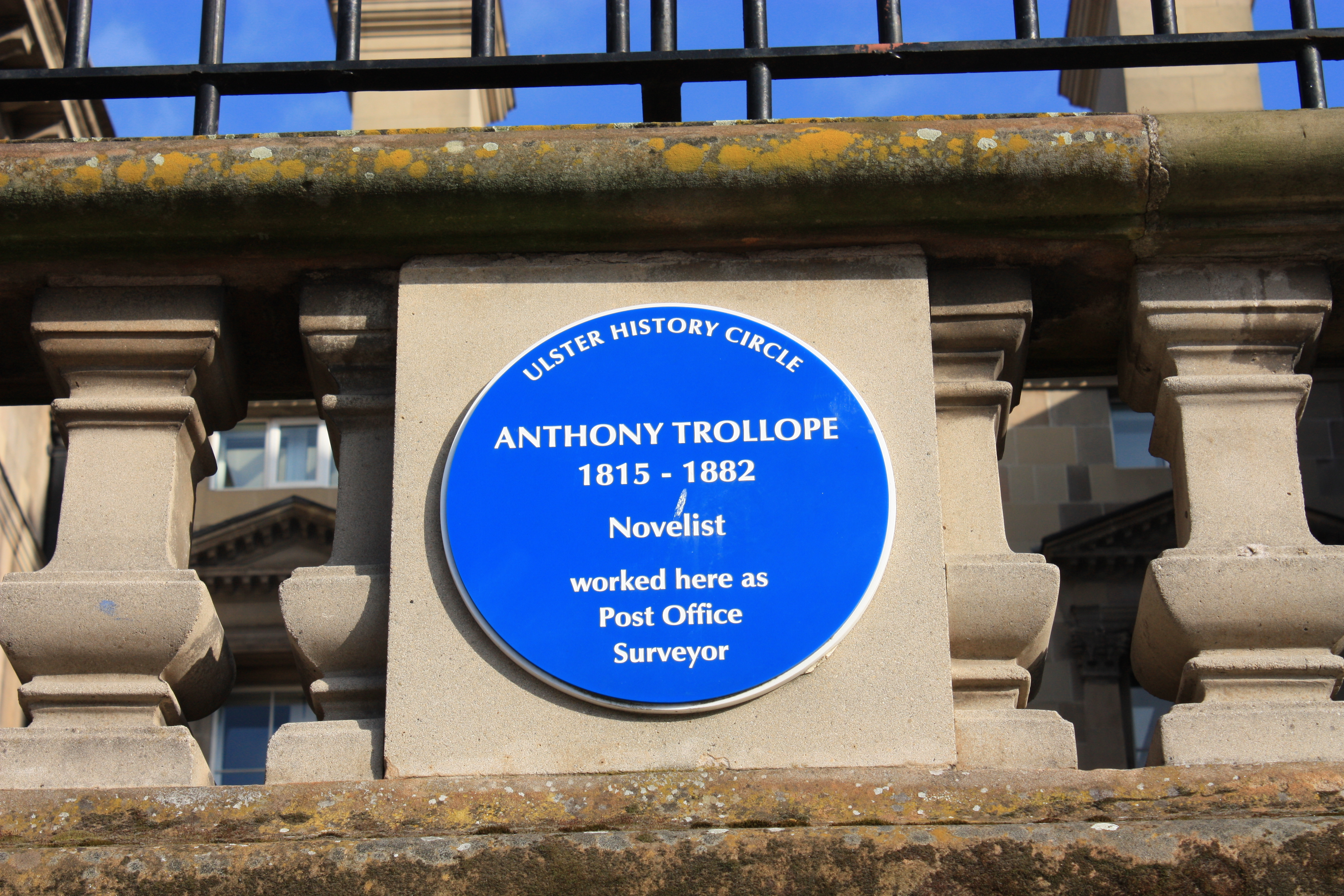 Anthony Trollope plaque at the Custom House, Custom House Square, Belfast, Northern Ireland, October 2009